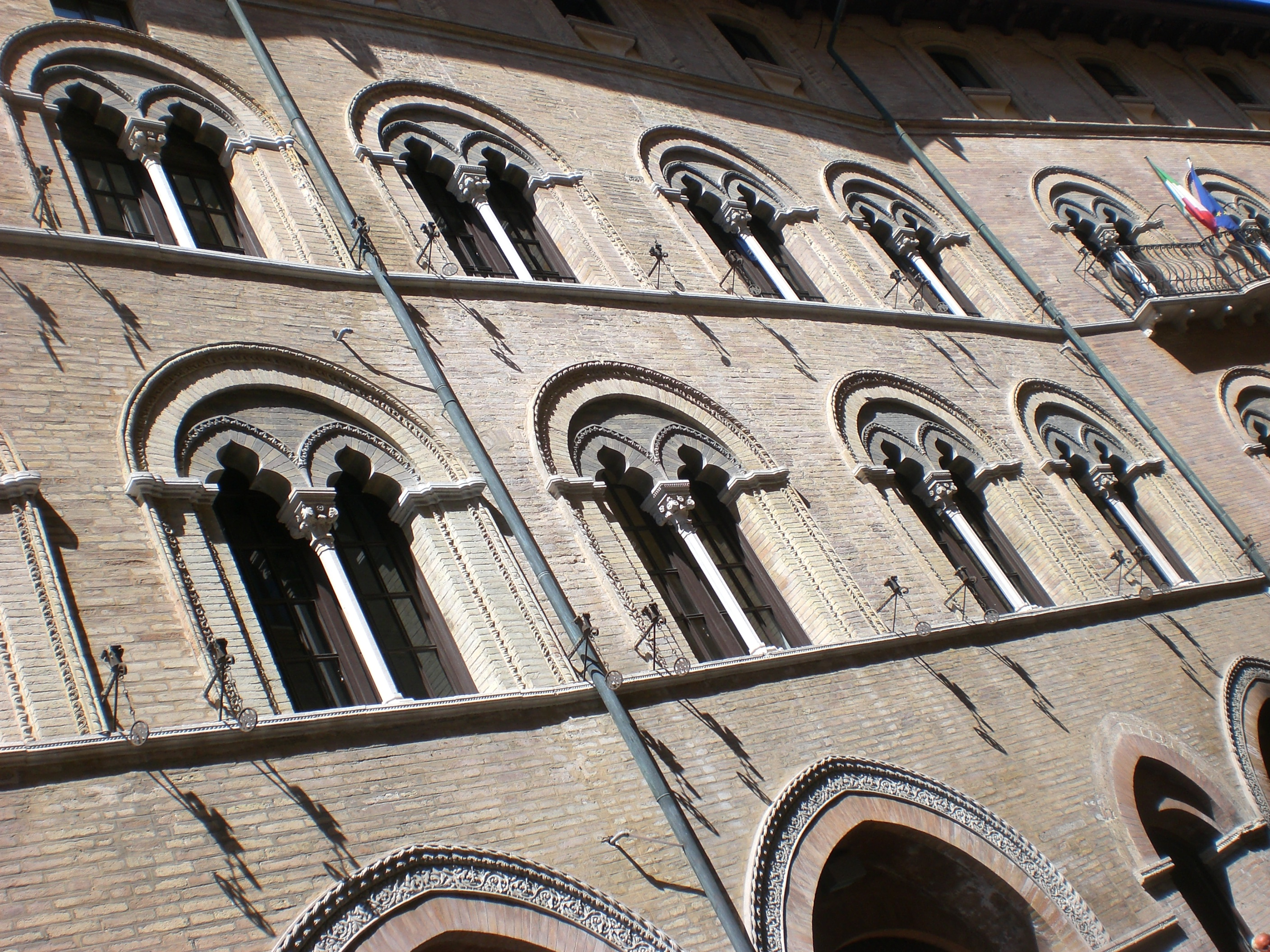 Ancona, Facade of Benicasa Palace, XV century